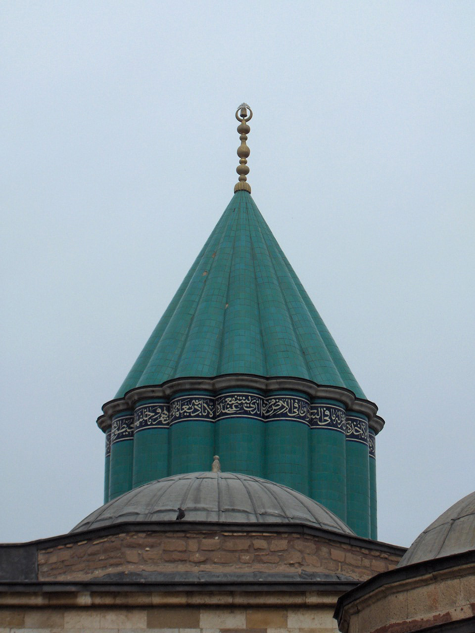 Drum and dome over the tomb of the Persian mystic Jalal ad-Din Muhammad Rumi. The building is nowadays known as the Mevlânâ Museum, Konya, Turkey.